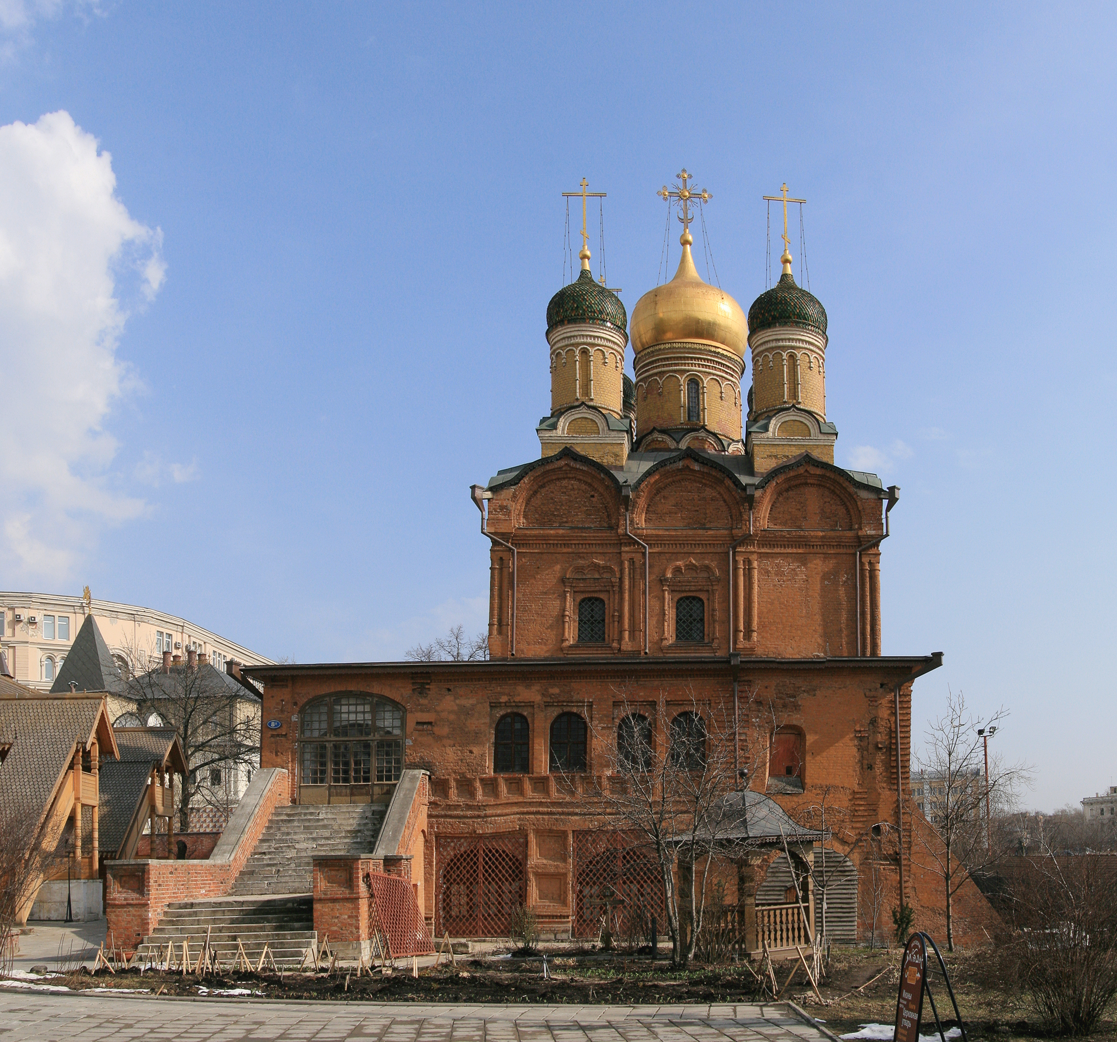 Znamensky Monastery, Church of the Theotokos of the Sign (XVII-XVIII c), Varvarka steet, Moscow